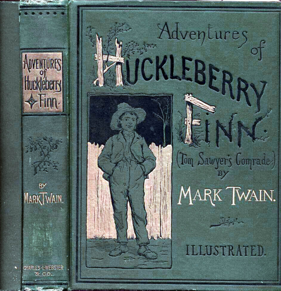 Cover of Adventures of Huckleberry Finn from the second (first US-published) 1885 edition of the book.